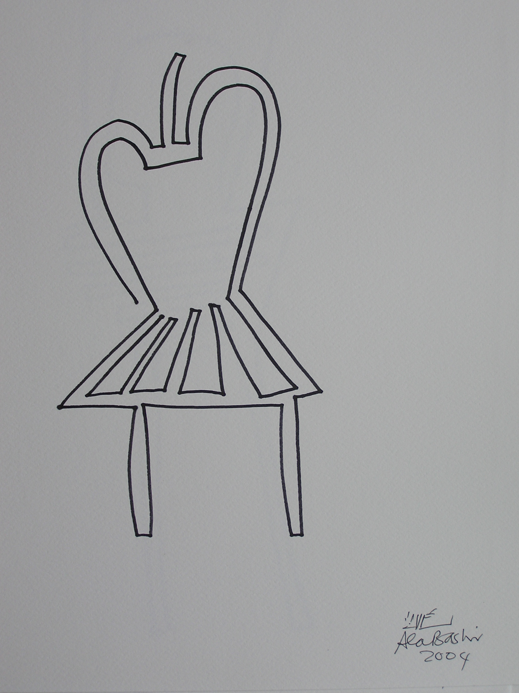 Ala Bashir - Single Line Sketch - Chair And Apple